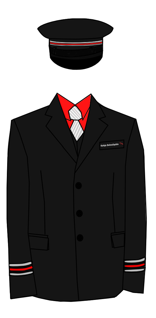 Pattern of Koleje Dolnoslaskie ("Lower Silesia Railways") male uniform (Poland).